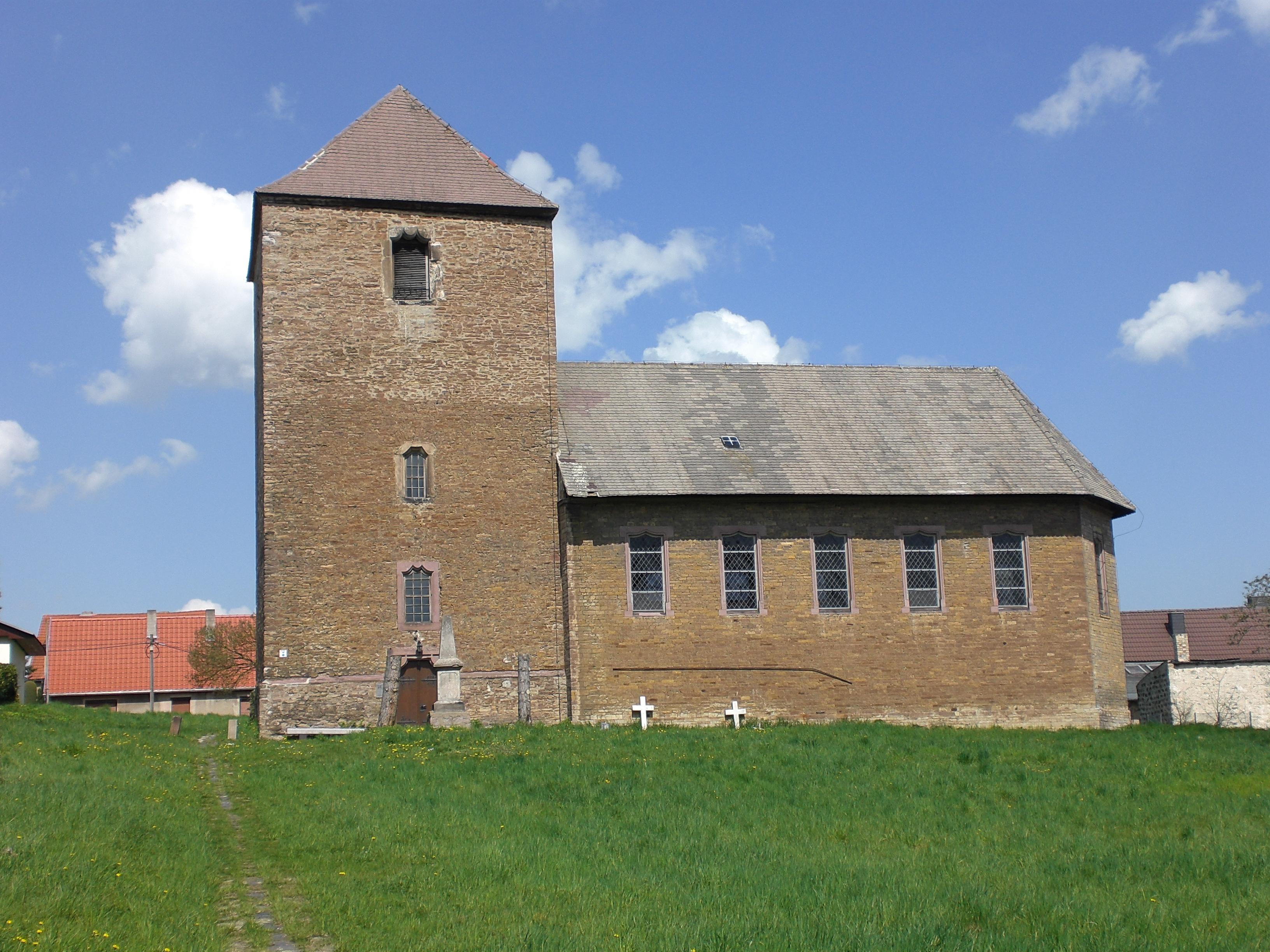 the church St. Martin in the german village Ahlsdorf in Saxonia-Anhalt